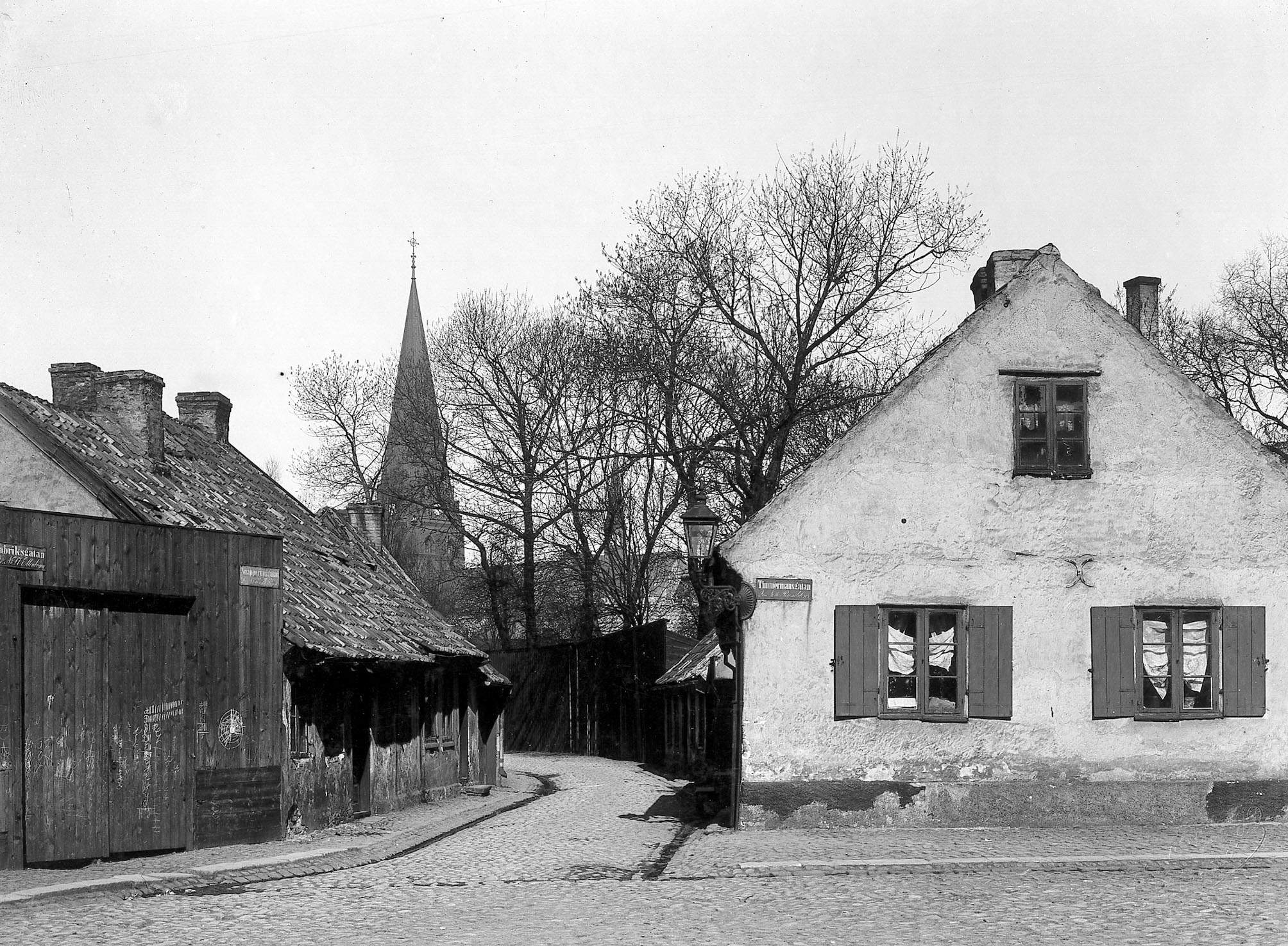 Timmermanstorget_in_Malmo about 1890.